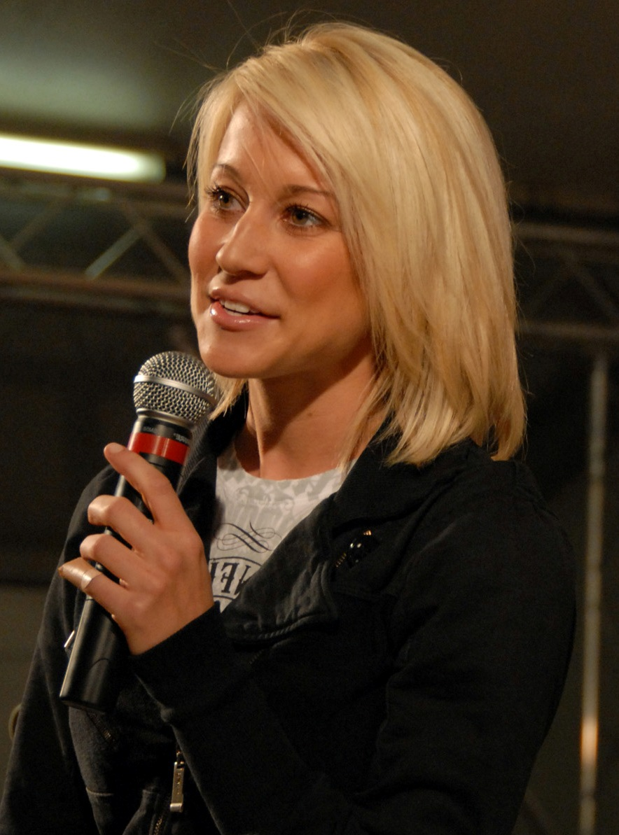 081217-N-8825R-010 KANDAHAR, Afghanistan (Dec. 17, 2008) Country singer and former American Idol contestant Kellie Pickler performs at the USO Holiday show in the Morale, Welfare and Recreation multi-purpose tent of Kandahar Air Field. Pickler is part of a variety entertainment show sponsored by the USO for troops stationed in Kandahar during the 2008 holiday season.